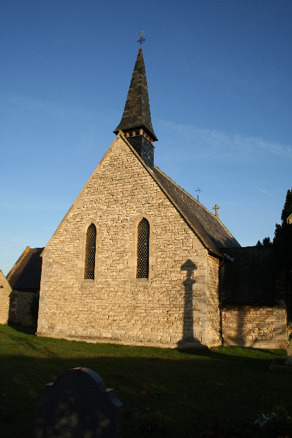 St.John's church, Temple Bruer, Lincs. Temple Bruer is best known for the remains of the Templar Preceptory, this little church by Fowler in 1874 stands less than mile north of the preceptory remains.